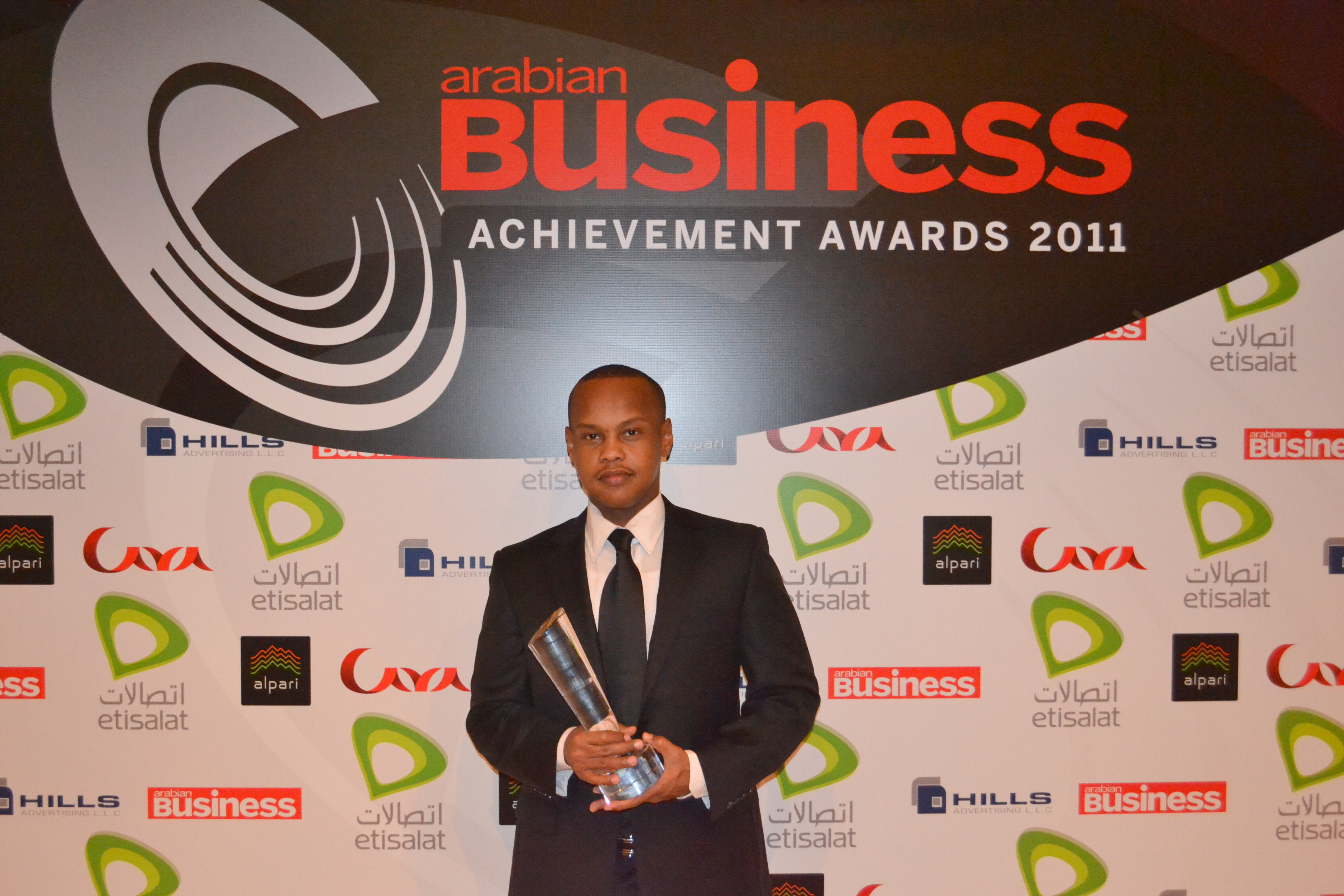 Arabian Business Achievement Awards 2011 Mohamed Osman Baloola won science and innovation award